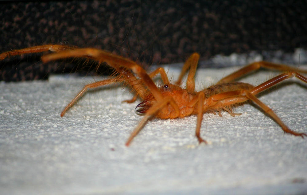 Solifugae is an order of animals in the class Arachnida. They are known variously as camel spiders, wind scorpions, sun spiders or solifuges. The order includes more than 1,000 described species in about 153 genera. The Solifugae is a different order from the true spiders (order Araneae) and the scorpions (order Scorpiones). Much like a spider, the body of a Solifugid has two tagmata: an opisthosoma (abdomen) behind the prosoma (that is, in effect, a combined head and thorax). At the front end, the prosoma bears two chelicerae that, in most species, are conspicuously large. The chelicerae serve as jaws and in many species also are used for stridulation. Unlike scorpions, solifugids do not have a third tagma that forms a "tail". Most species of Solifugae live in deserts and feed opportunistically on ground-dwelling arthropods and other small animals. Some species may grow to a length of 300 mm (12 in) including legs. A number of urban legends exaggerate the size and speed of Solifugae, and their potential danger to humans, which is practically nil.